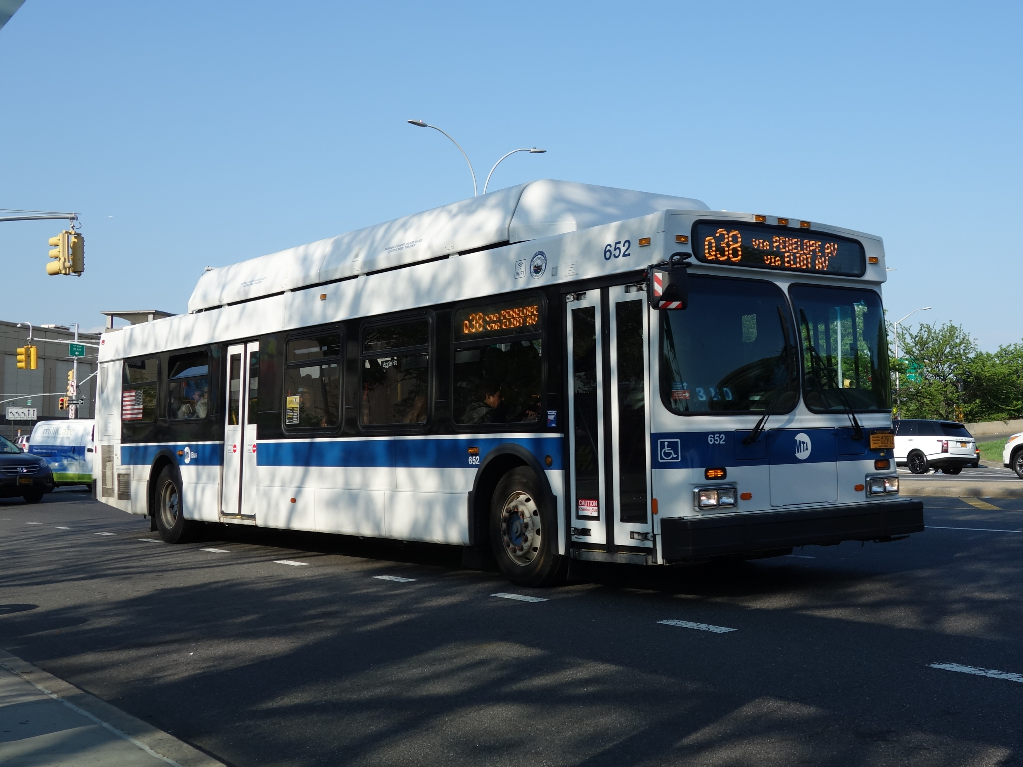 A Middle Village and Rego Park-bound Q38 bus turning south from Hoffman Drive onto Woodhaven Boulevard in Elmhurst, Queens. Looking from the QM10 bus stop.